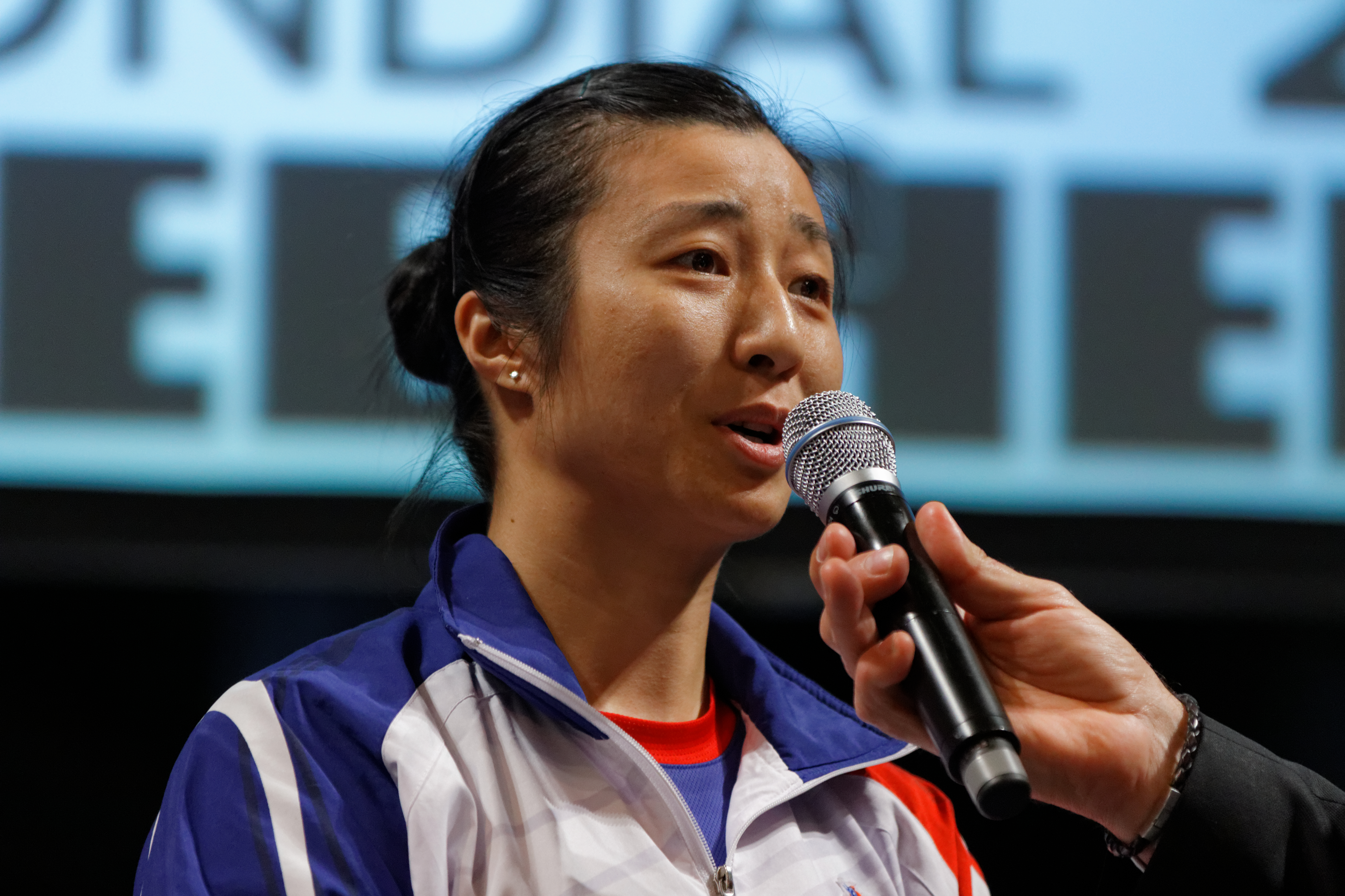 Championnats du monde de tennis de table, Paris. Conférence de presse et tirage au sort.